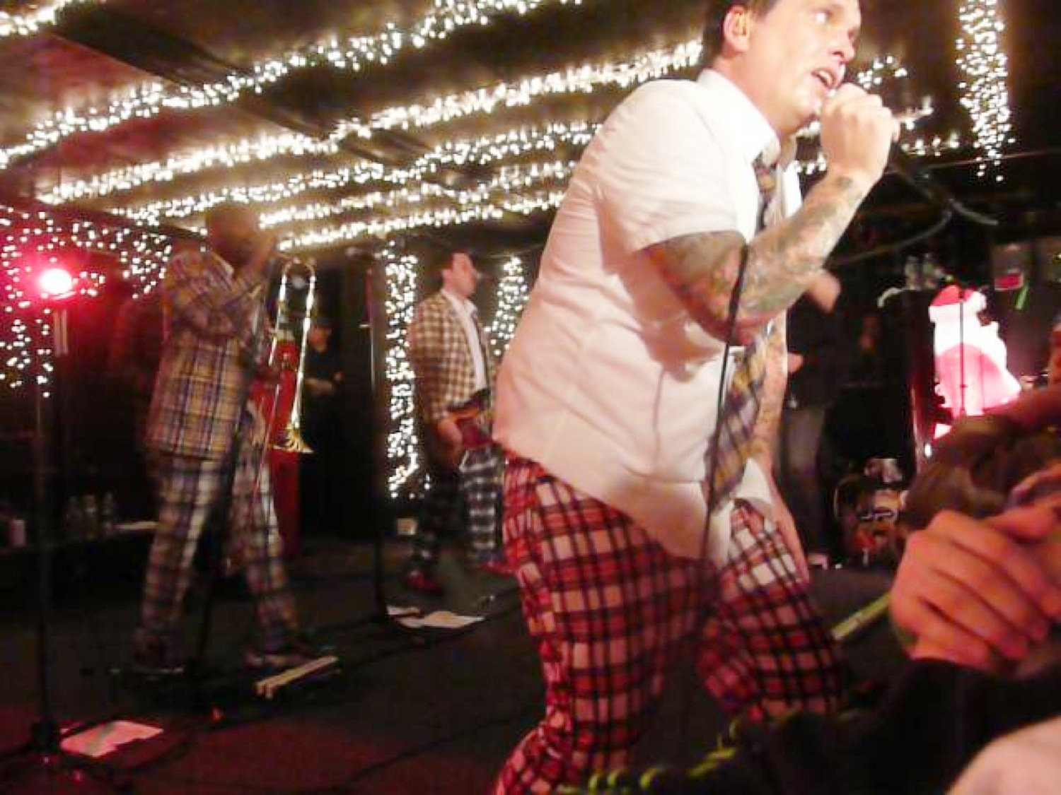 The Ska-band The Mighty Mighty Bosstones live in concert.